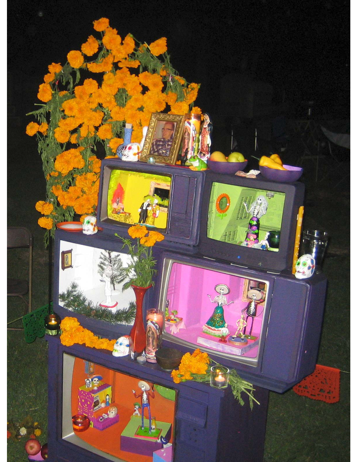 Day of the Dead Los Angeles